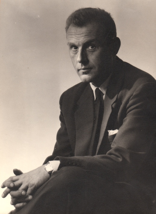 Portrait photography of the Norwegian artist Carl Frithjof Tidemand-Johannessen, fra 1957.